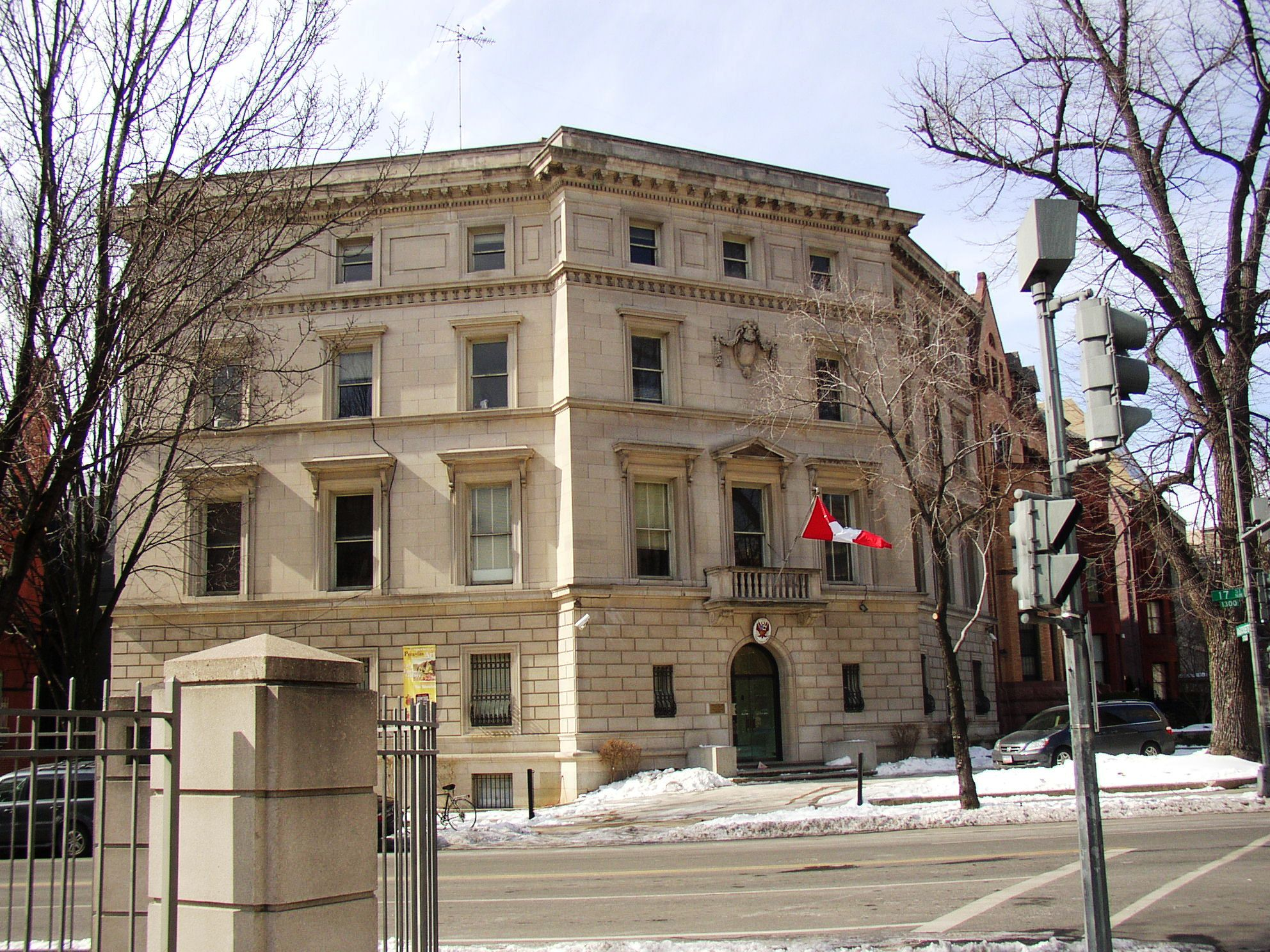 Photo taken by uploader in Washington, DC, USA in February of 2007. All rights released. for inclusion on List of Washington, D.C. embassies. Williamborg 00:26, 25 February 2007 (UTC)